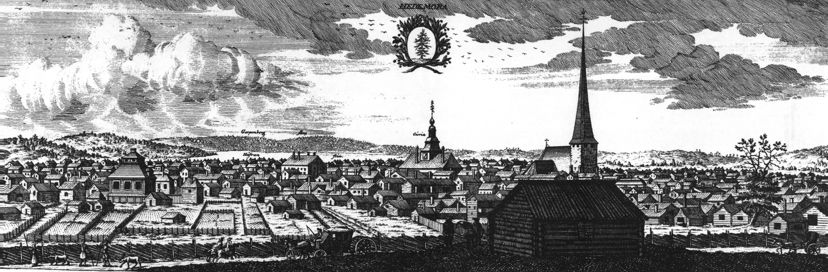 The city of Hedemora in Sweden Engraving made sometime between 1690-1710 Scanned by me from Erik Dahlberg, Svecia Antiqua et Hodierna, facsimile, 1983 256 color black&white jpg. 200 dpi.